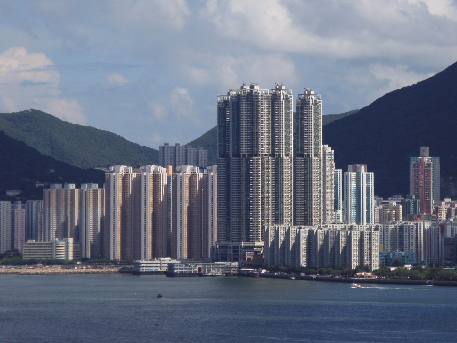 Sai Wan Ho